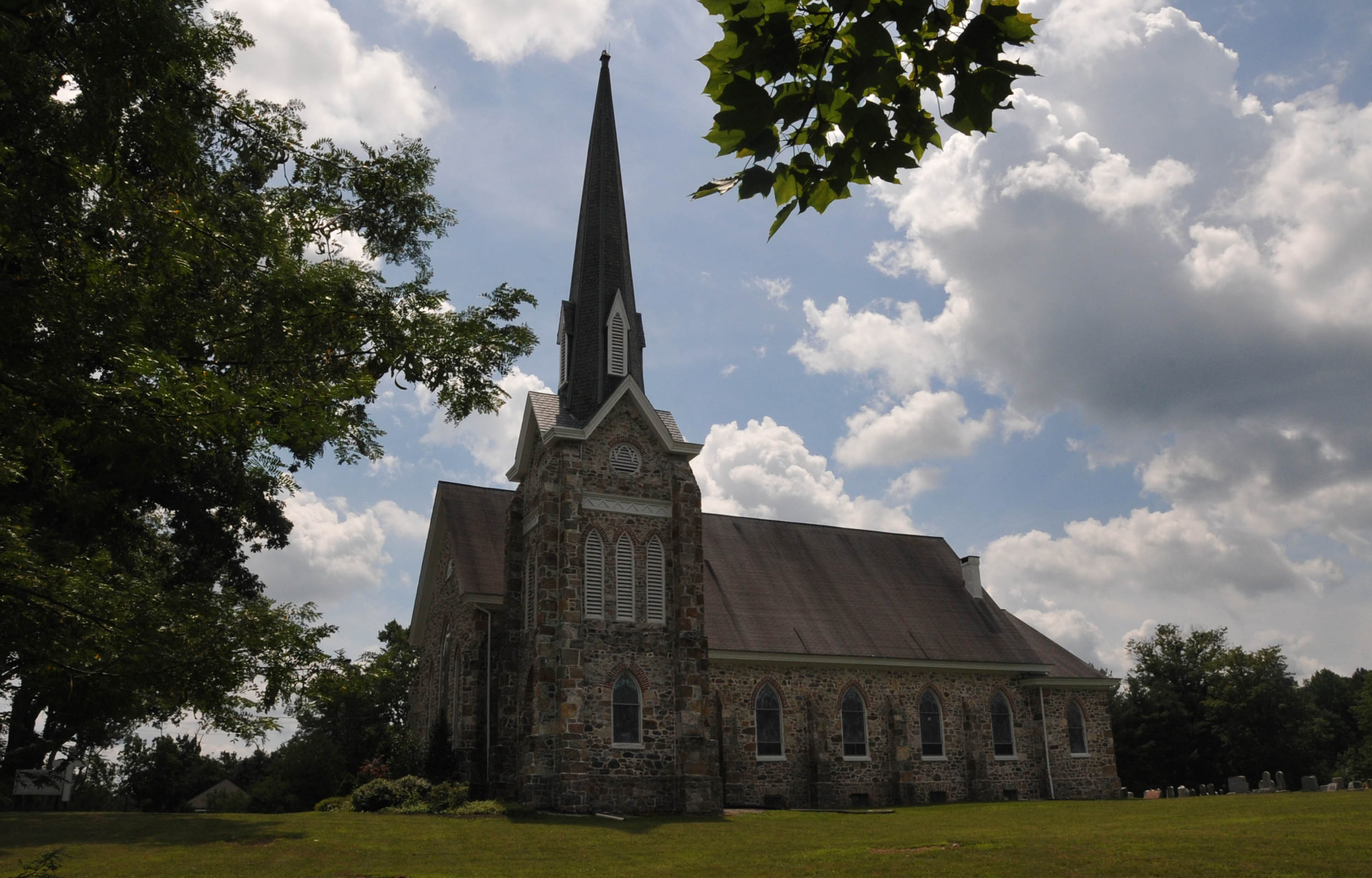 CONSISTS OF 50 ODD BUILDINGS AND A METHODIST CHURCH ESTABLISHED IN THE EARLY 1800’S BY JAMES MOORE. IT WAS ORIGINALLY CALLED NORWOOD BUT IN 1874 THE NAME WAS CHANGED TO GLENMOORE IN RECOGNITION OF THE FOUNDER AND THE FACT IT IS IN A NARROW VALLEY OR GLEN